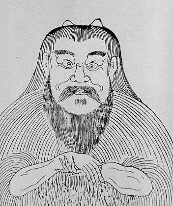 Pangu, mythical creator of the world